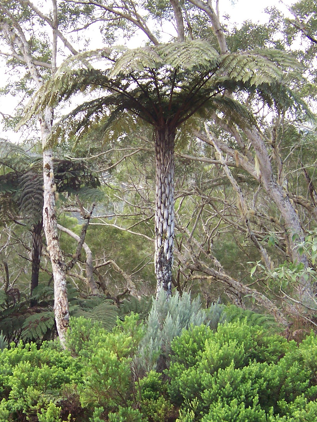 The tree-fern Cyathea glauca, endemic species of Réunionisland, growing under mountain tamarins (Acacia heterophylla) in the forest of Bélouve